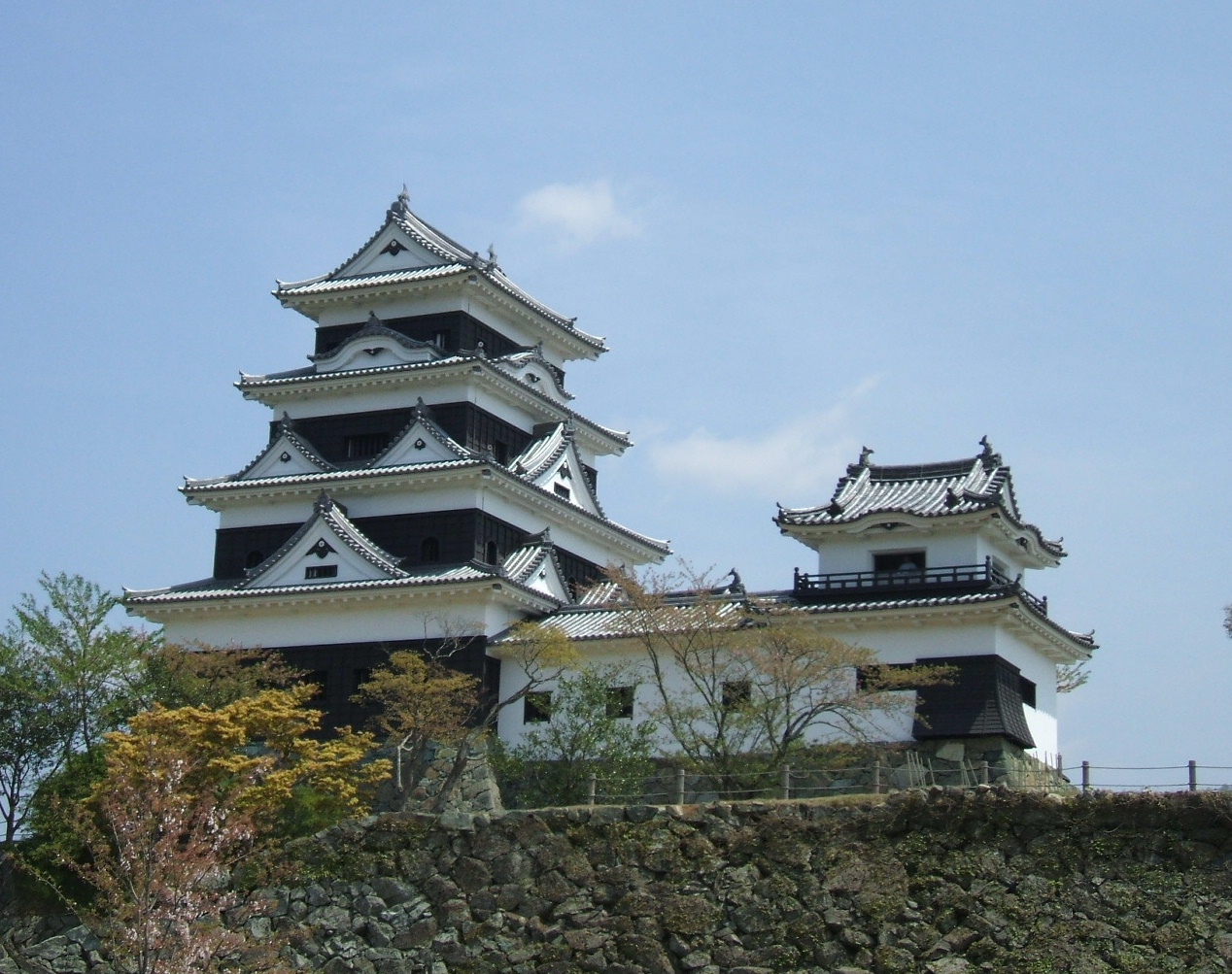 Ozu castle in Ehime Japan愛媛県大洲市にある==大洲城天守建築群（西側より撮影）